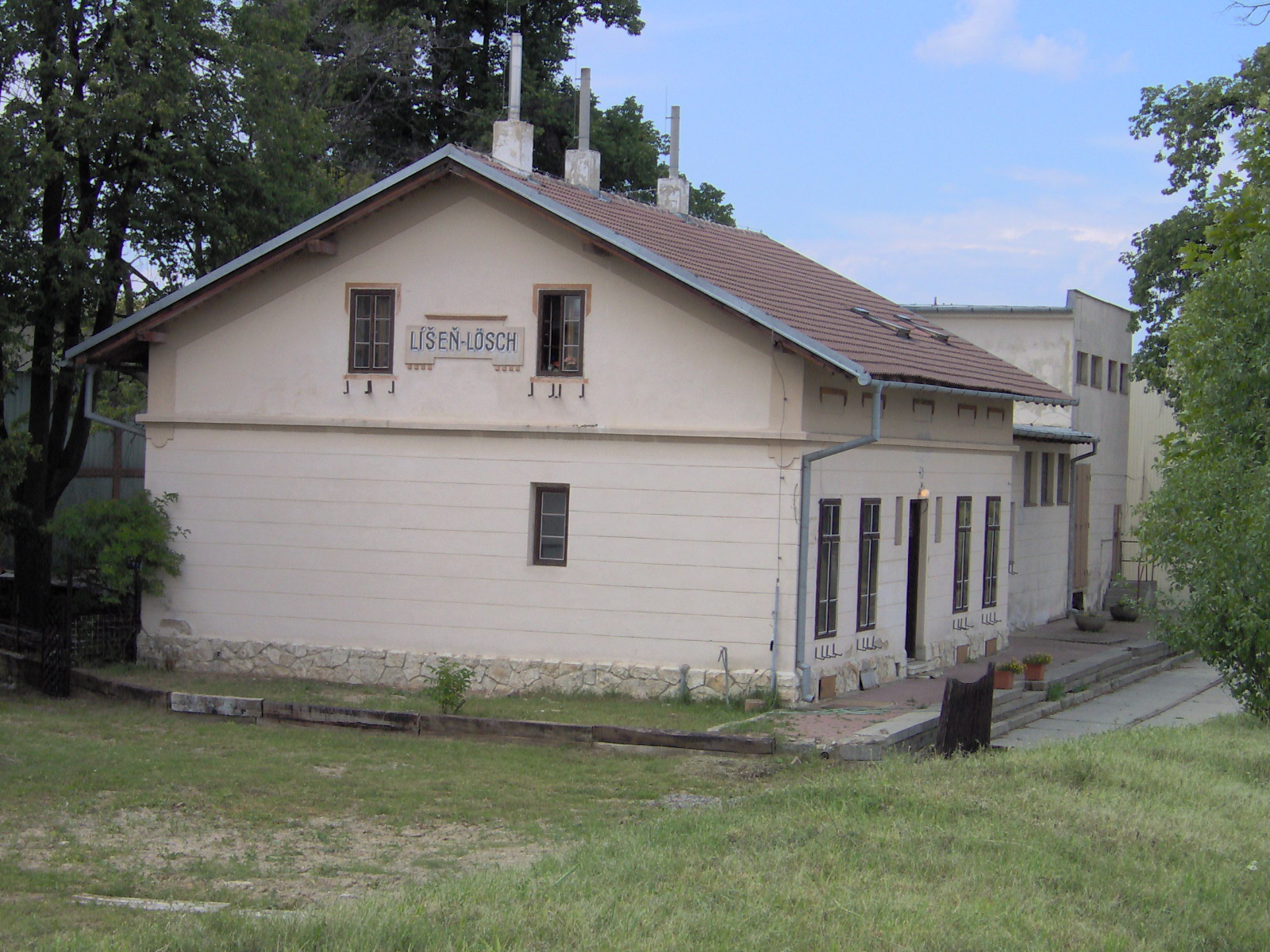 Former tram track Černovice - Líšeň in Brno, former tram stop Líšeň